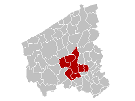 Location of Arrondissement Roeselare in Belgium.